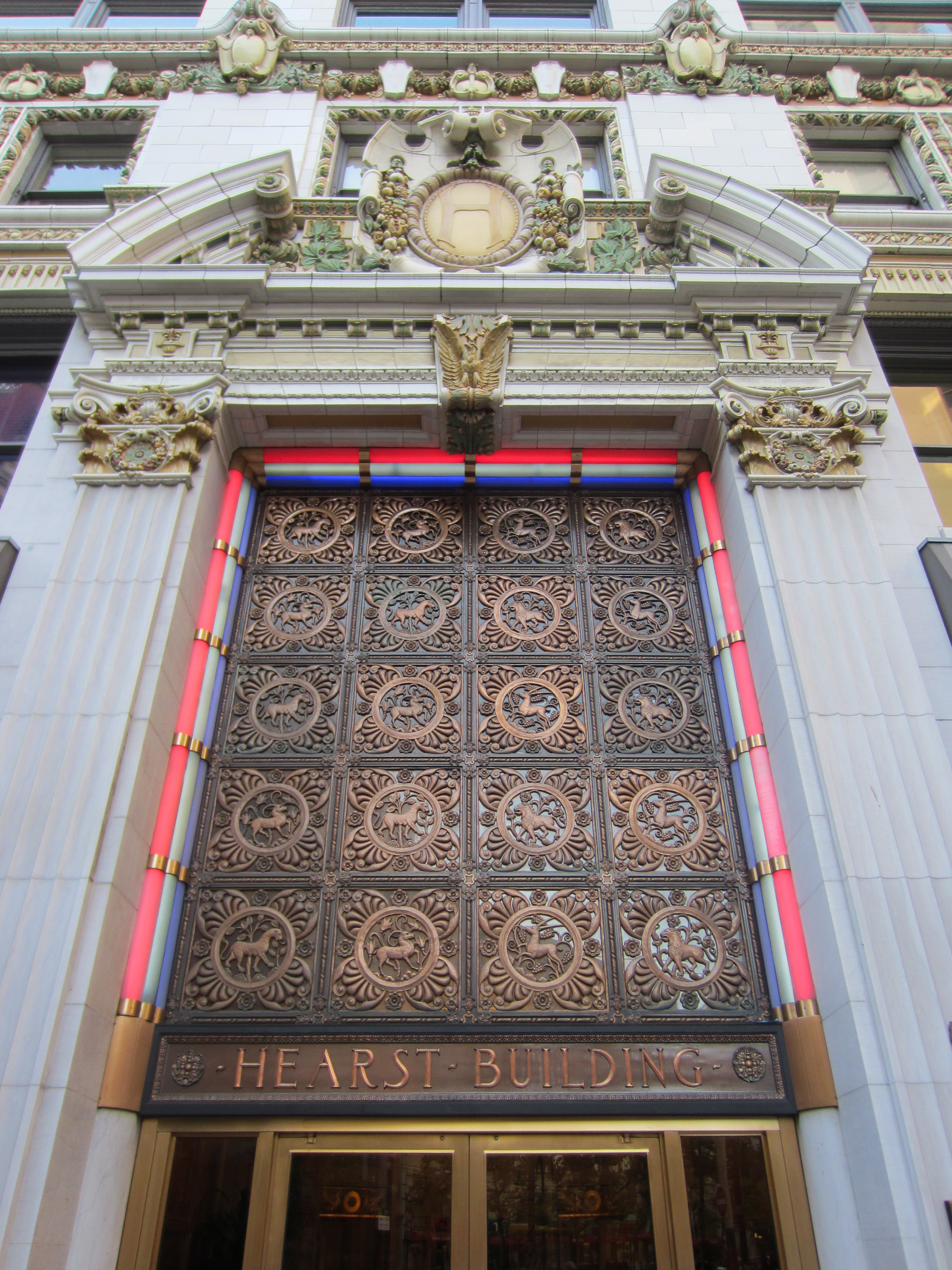 Hearst Building, San Francisco (2013)